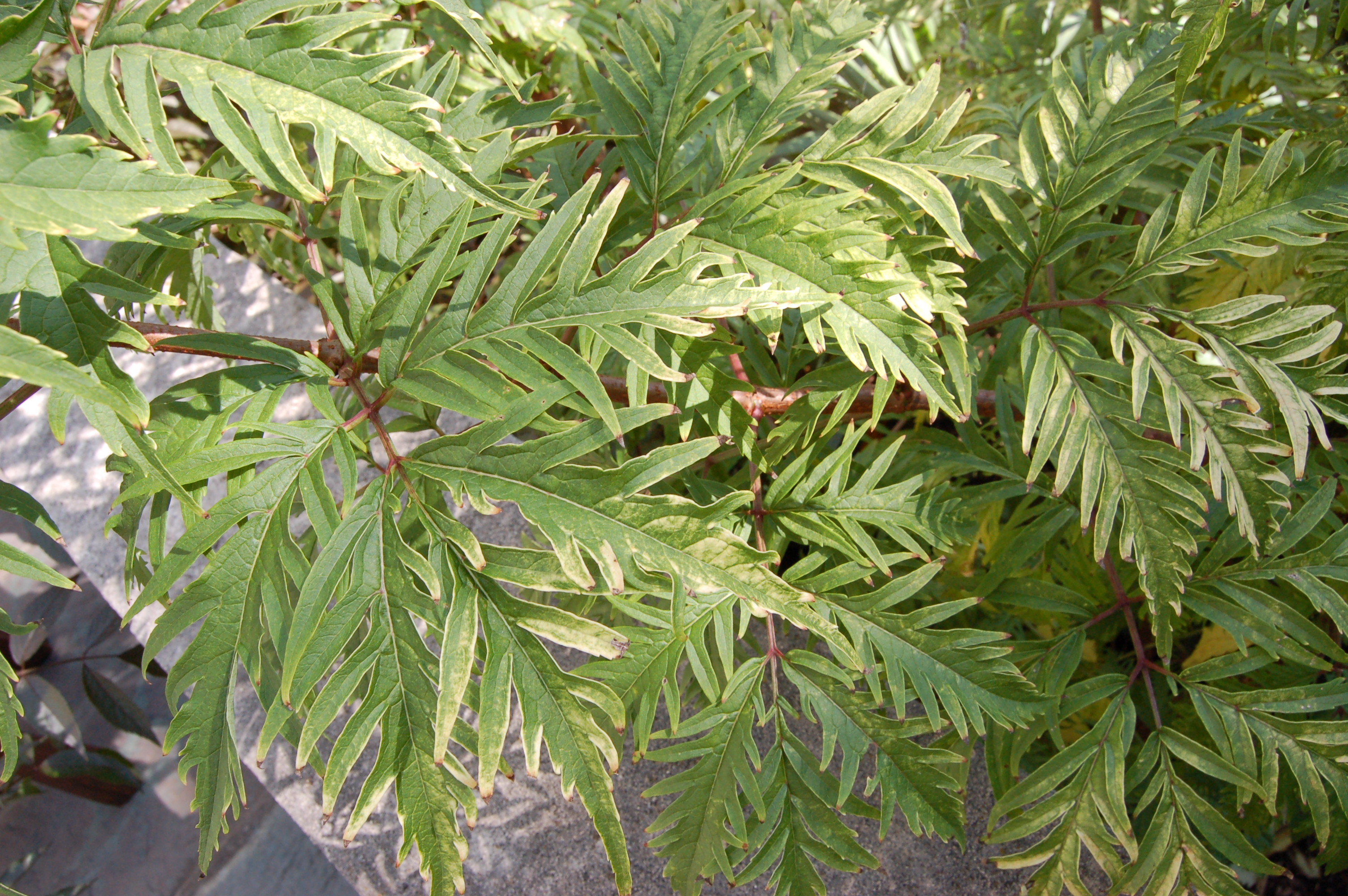 A picture of the leaf of the Cutleaf Red Elderberry (Sambucus racemosa en 'Sutherland Gold'). Photo taken at the Chanticleer Garden where it was identified.